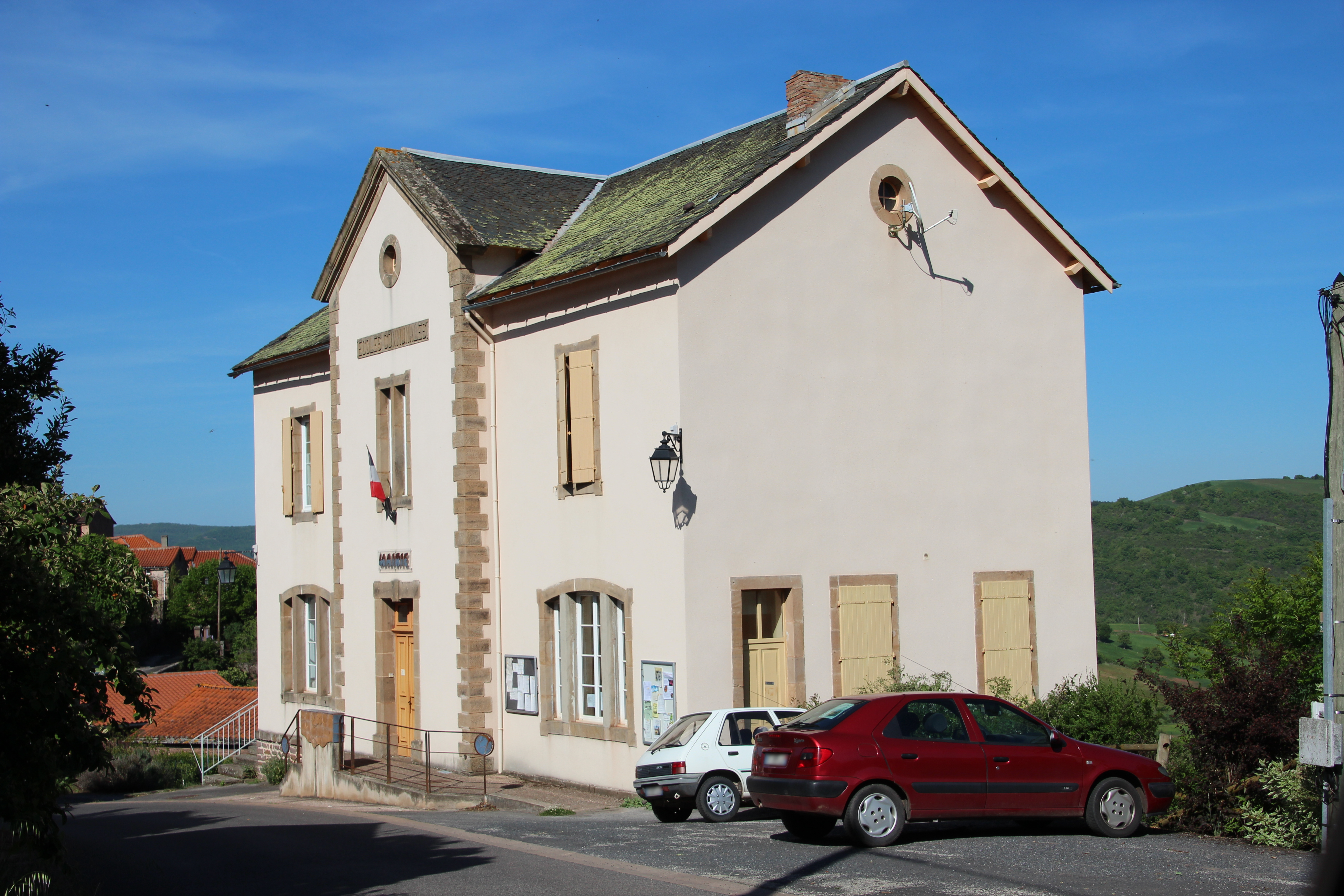 View of Calmels-et-le-Viala, France in may 2014.